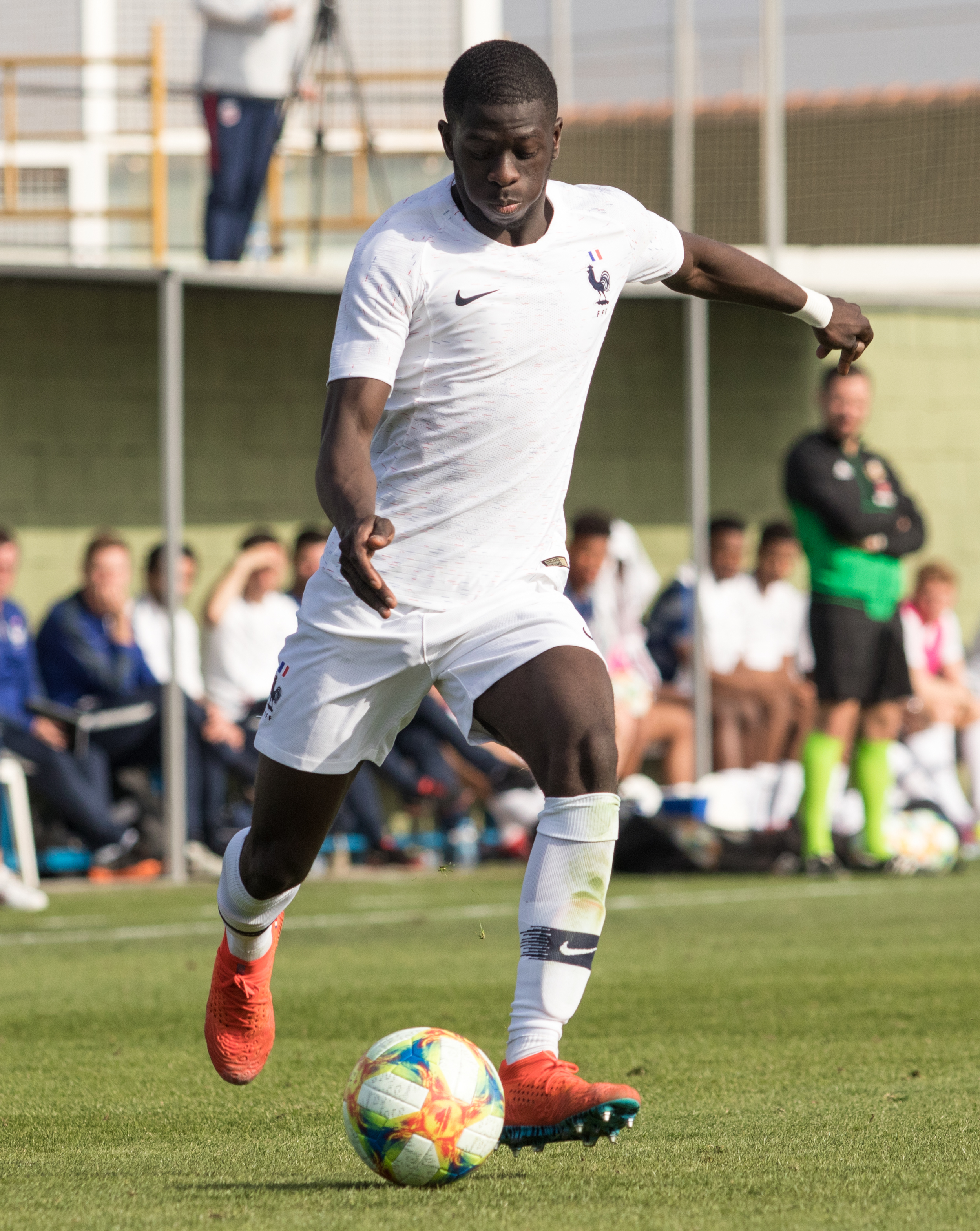 USA U20 v France U20, 22 March 2019